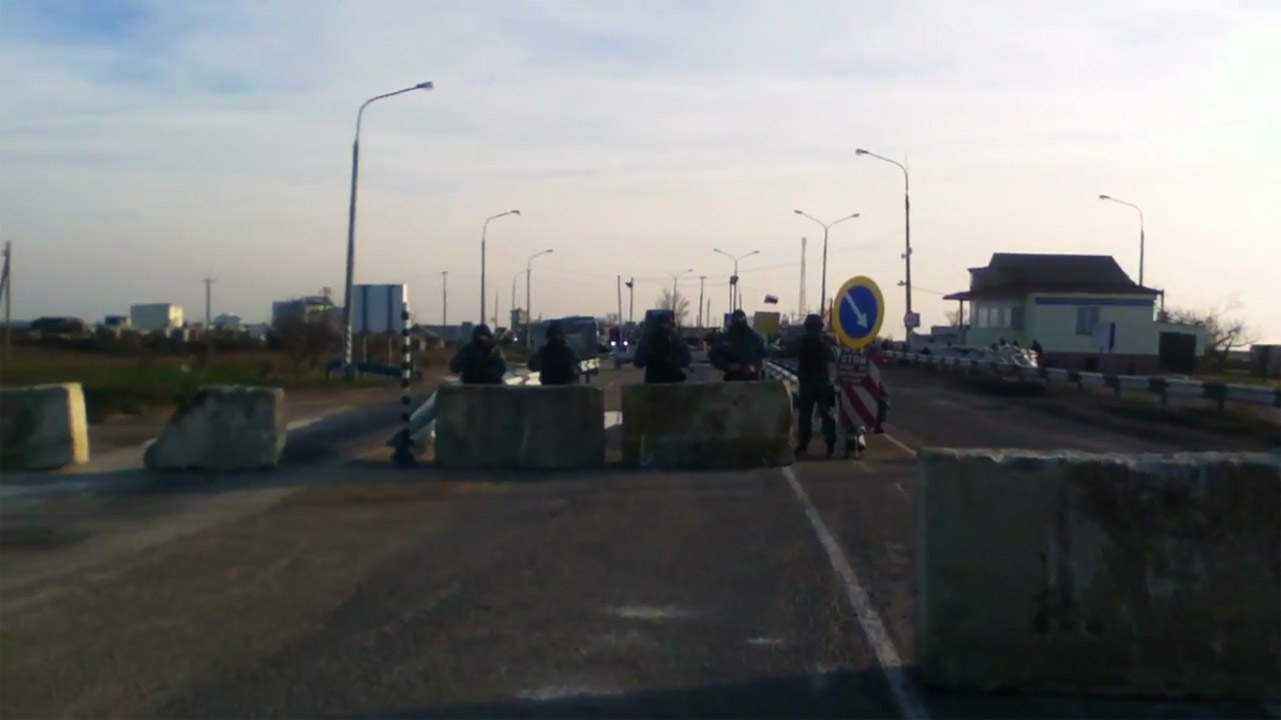 Russian military checkpoint near Chonhar, Kherson Oblast, Ukraine